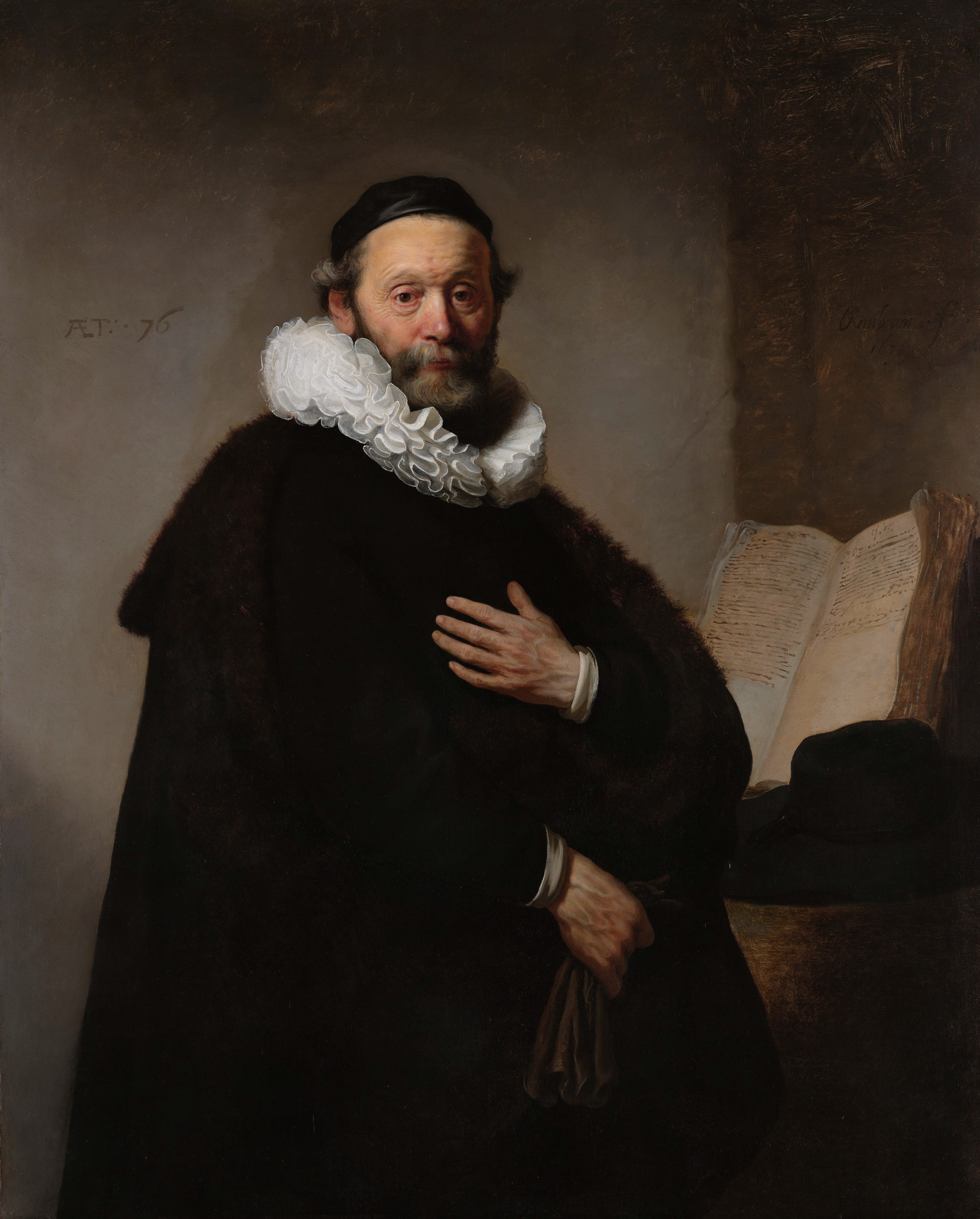 Portrait of Johannes Wtenbogaert (1557–1644), remonstrant minister, at the age of 76. Standing, at half length, gloves in his right hand, his left hand on his chest. To the right an open book stands against the wall. In front of it a broad-rimmed black hat is placed.